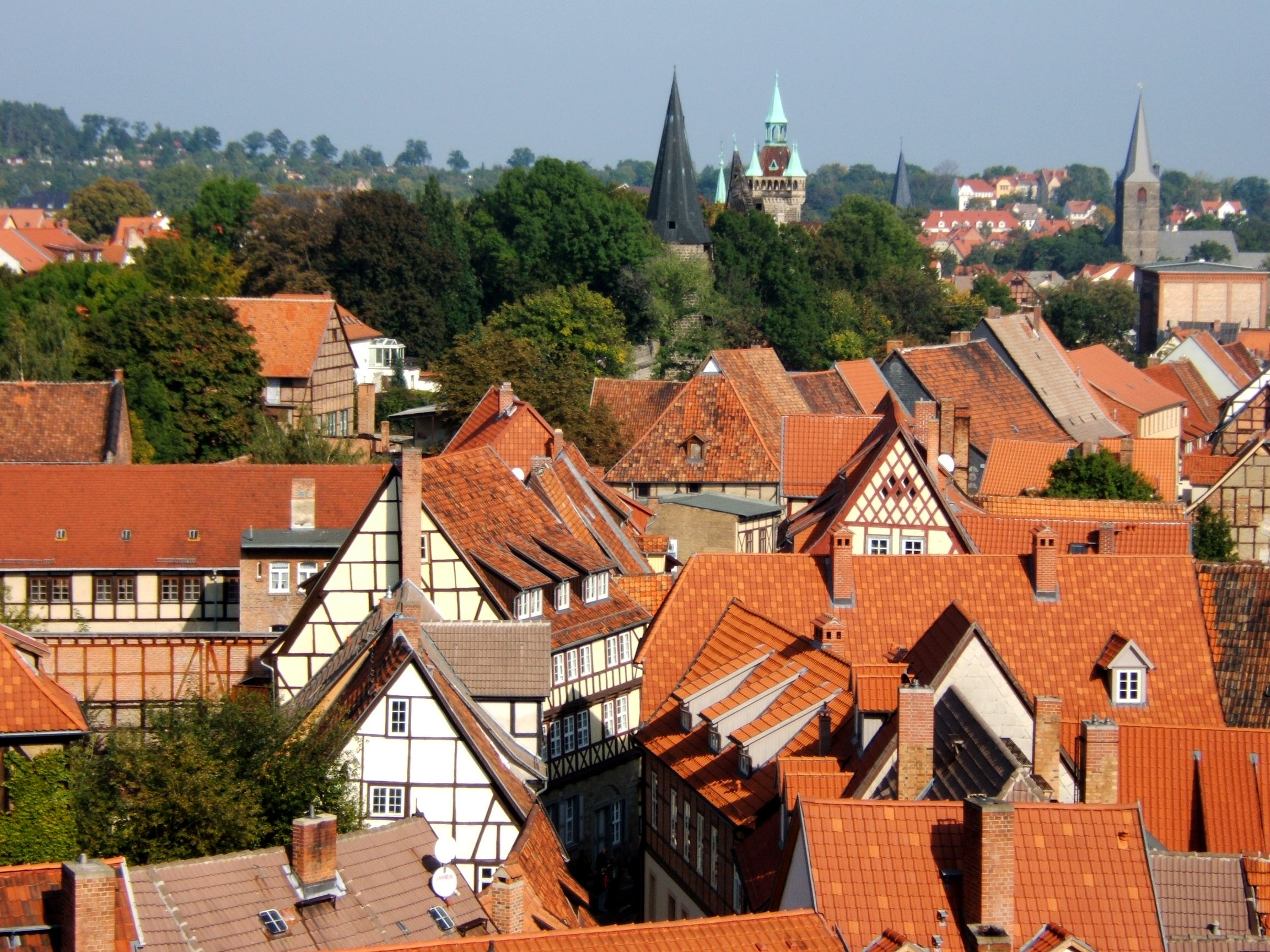 Roofs of the old town of Quedlinburg, Germany, as seen from the Burgberg